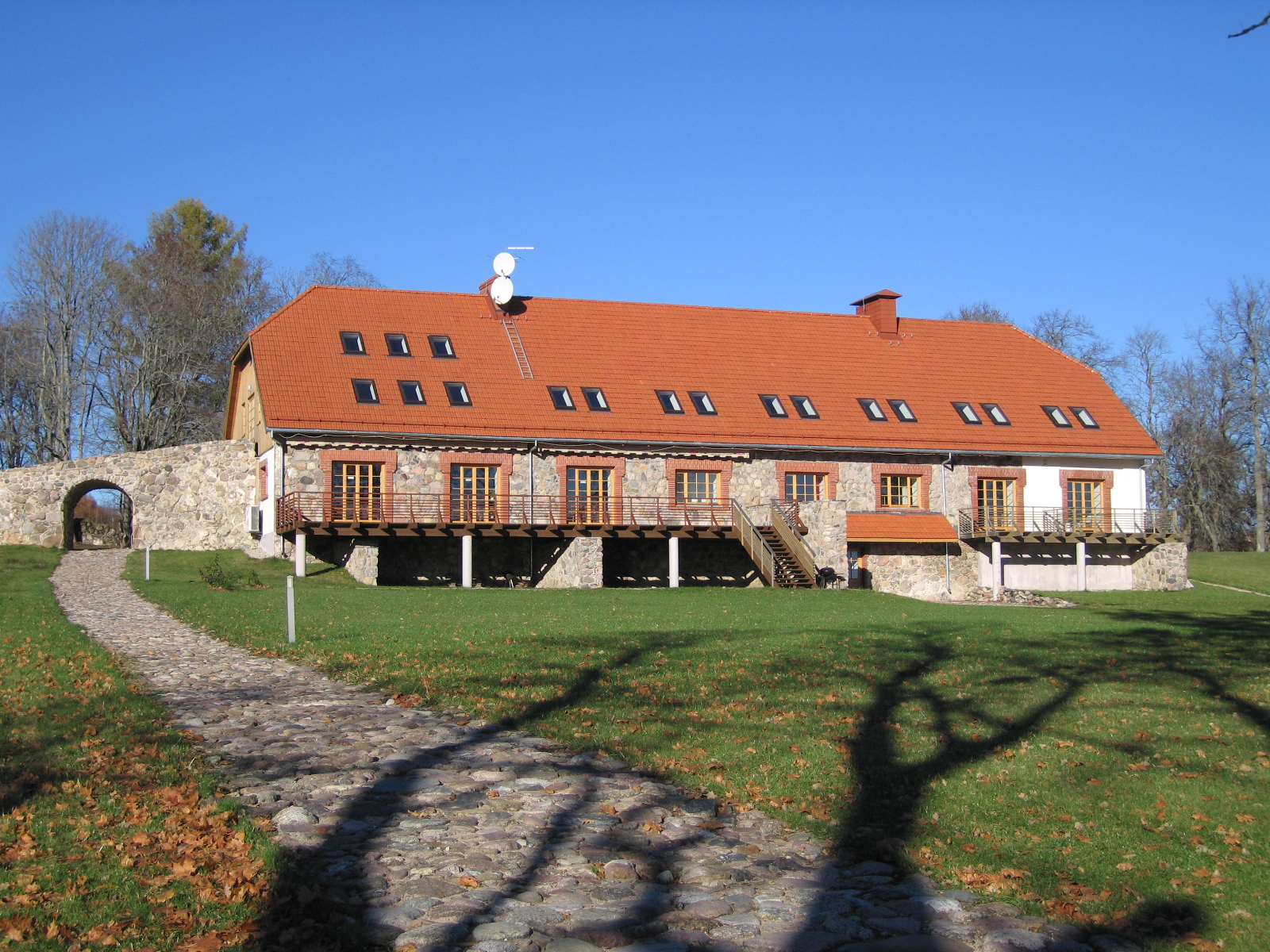 Jumurda estate building